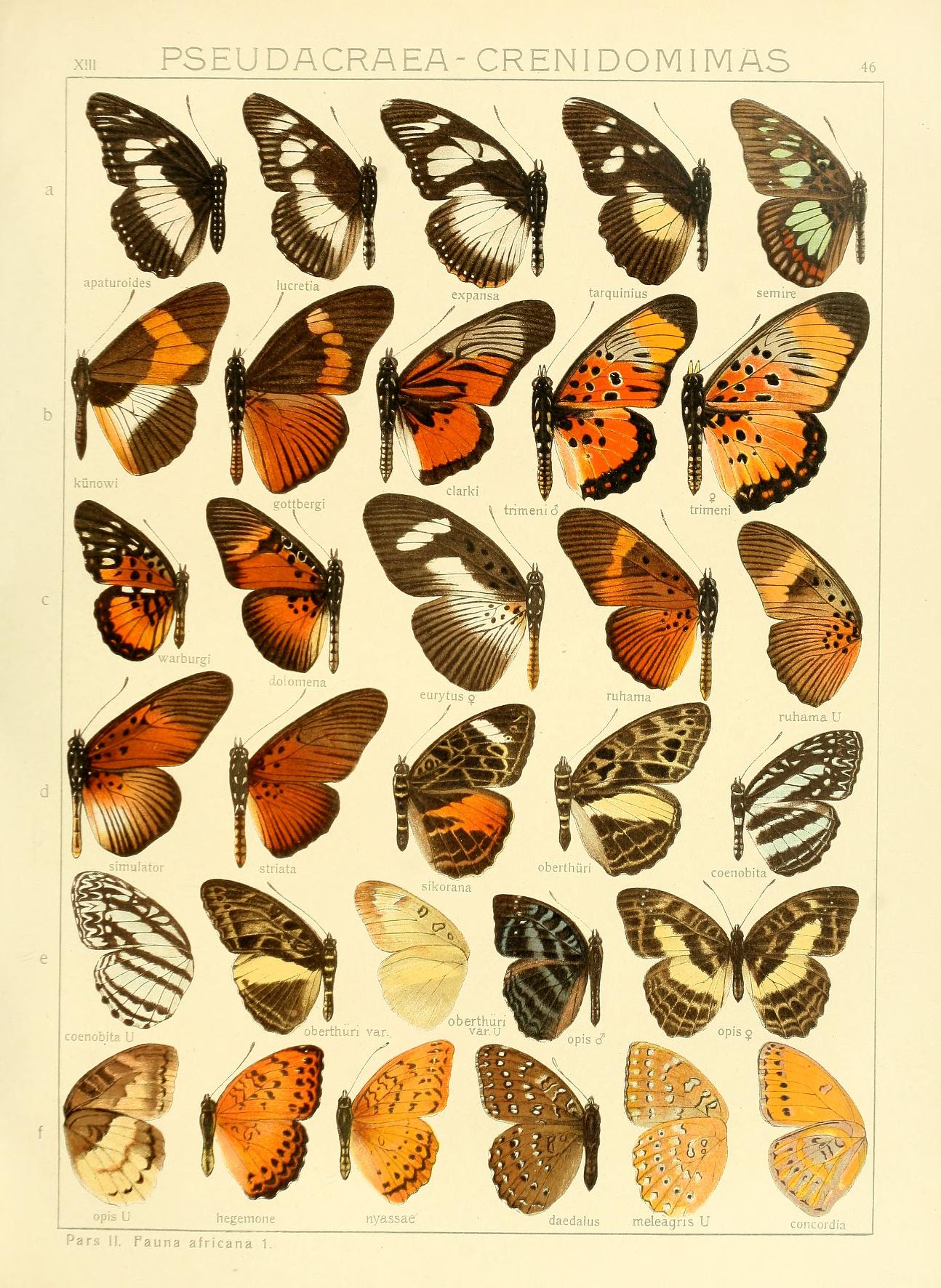 Adalbert Seitz Die Gross-Schmetterlinge der Erde 13: Die Afrikanischen Tagfalter. Plate XIII 46 Pseudacraea lucretia apaturoides (C. & R. Felder, [1867]) Panopea expansa Butler, 1878 synonym for Pseudacraea lucretia (Cramer, 1775) Panopea tarquinia Trimen, 1868 synonym for Pseudacraea lucretia (Cramer, 1775) Diadema ruhama Hewitson, 1872 synonym for Pseudacraea eurytus (Linnaeus, 1758) Pseudacraea simulator Butler, 1873 synonym for Pseudacraea eurytus (Linnaeus, 1758) Pseudacraea striata Butler, 1874 synonym for Pseudacraea eurytus (Linnaeus, 1758) Pseudacraea kuenowii gottbergi Dewitz, 1884 Pseudacraea boisduvali trimenii Butler, 1874 Catuna sikorana Rogenhofer, 1889 Catuna oberthueri Papilio coenobita Fabricius, 1793 synonym for Pseudoneptis bugandensis Stoneham, 1935 nyassae Bartel forma of Pseudargynnis hegemone Hamanumida daedalus (Fabricius, 1775) Papilio meleagris Cramer, 1775 synonym for Hamanumida daedalus Fabricius, (1775)